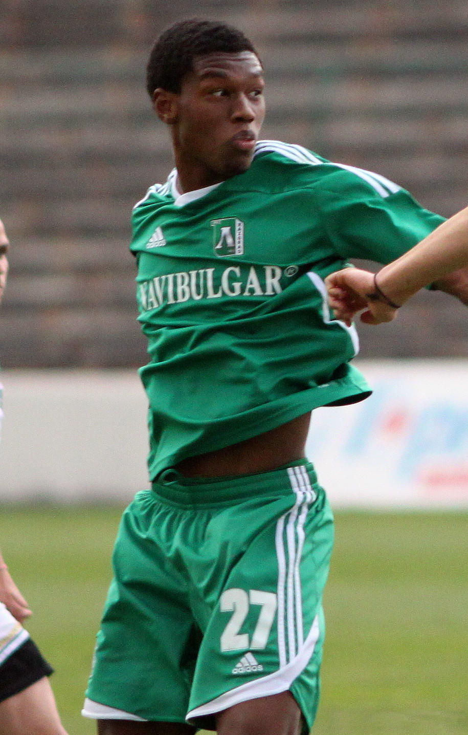 Christian Kabasele (born 24 February 1991) is a Belgian football player, who currently plays as a striker for Bulgarian A PFG side Ludogorets Razgrad who signed him on 22 August 2011